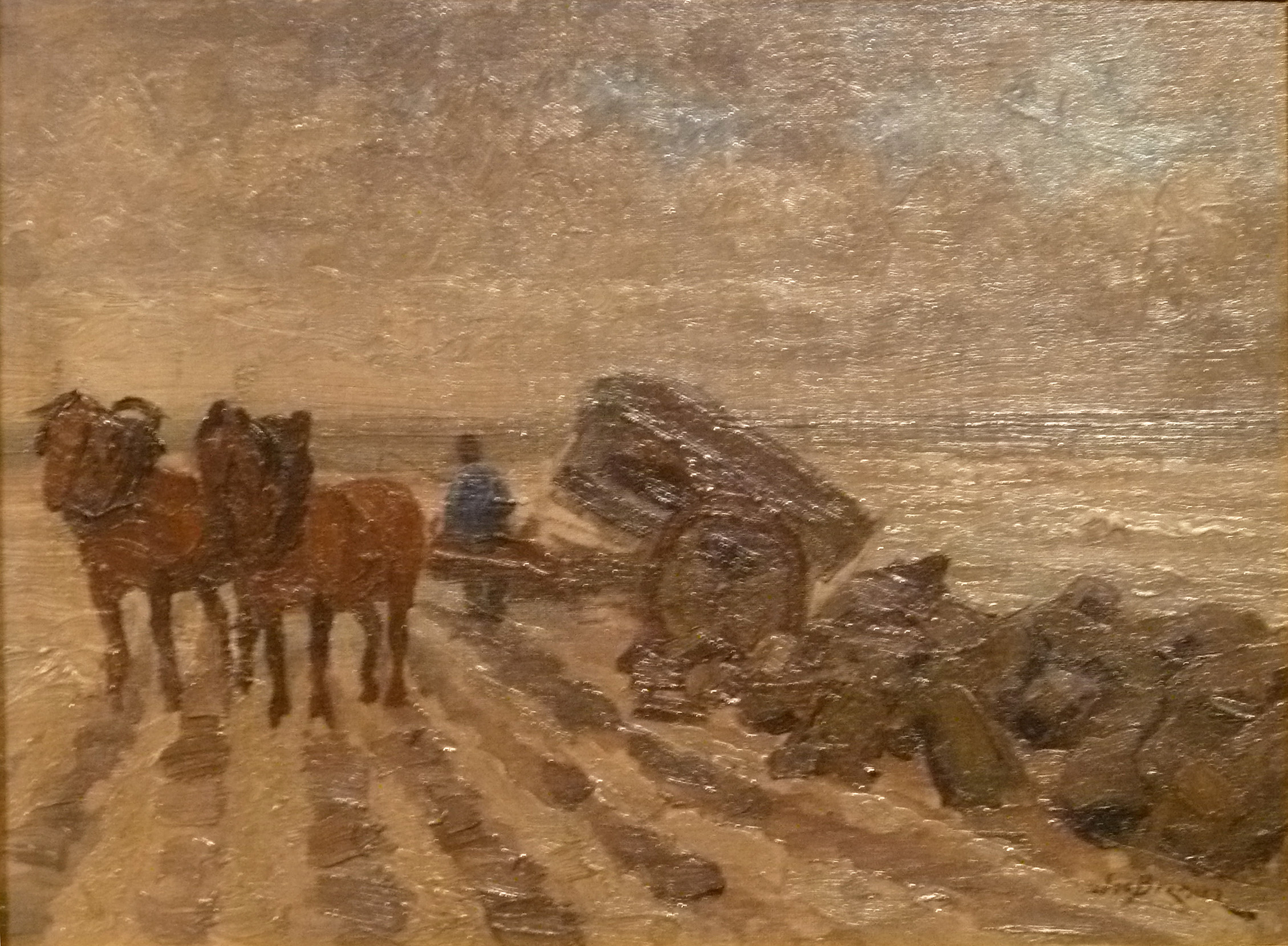 "Construction of Breakwater, Heyst", oil on panel (34 x 46 cm) by the Belgian painter Géo Bernier (1862-1918); private collection